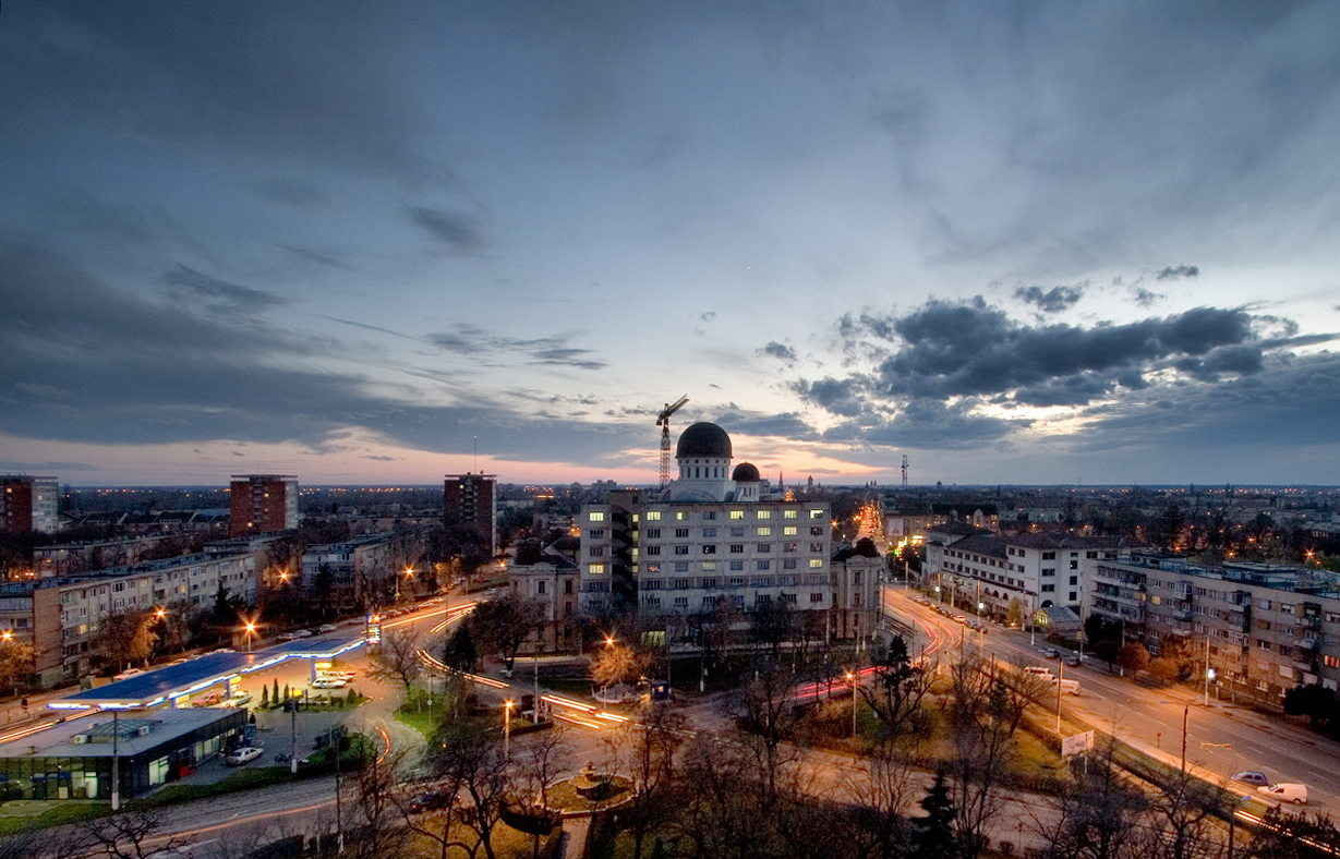 Author: Nick Csakany URL